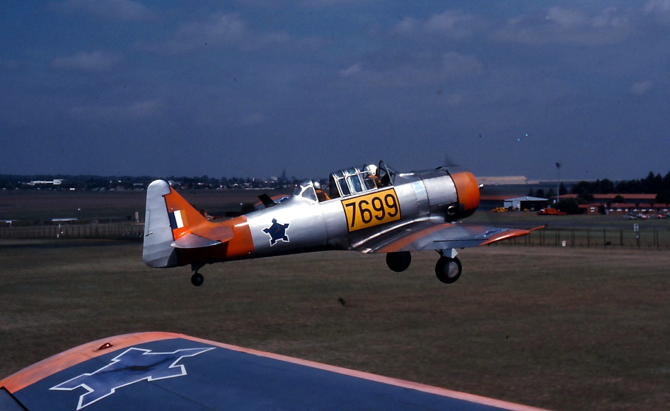 Harvard no. 7699 taking off from CFS Dunnottar on the end-of-instructors-course long navigation exercise via Tugela Mouth to Durban and back